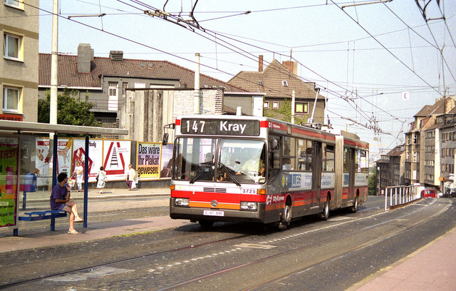 Duobus in electric mode near Essen Wasserturm